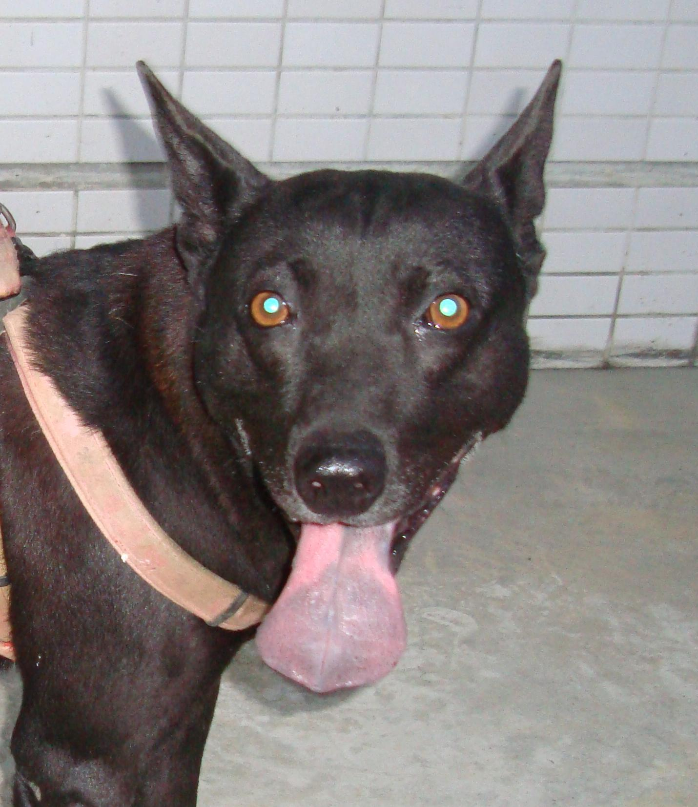 Closer look on Formosan face